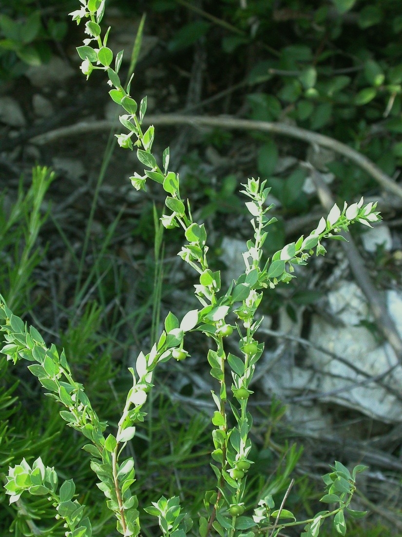 Andrachne telephioides, Monte Gargano, Italy